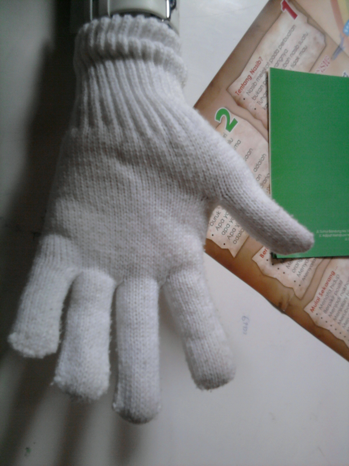 Cotton gloves that used by Paskibraka (Pasukann Pengibar Bendera Pusaka)